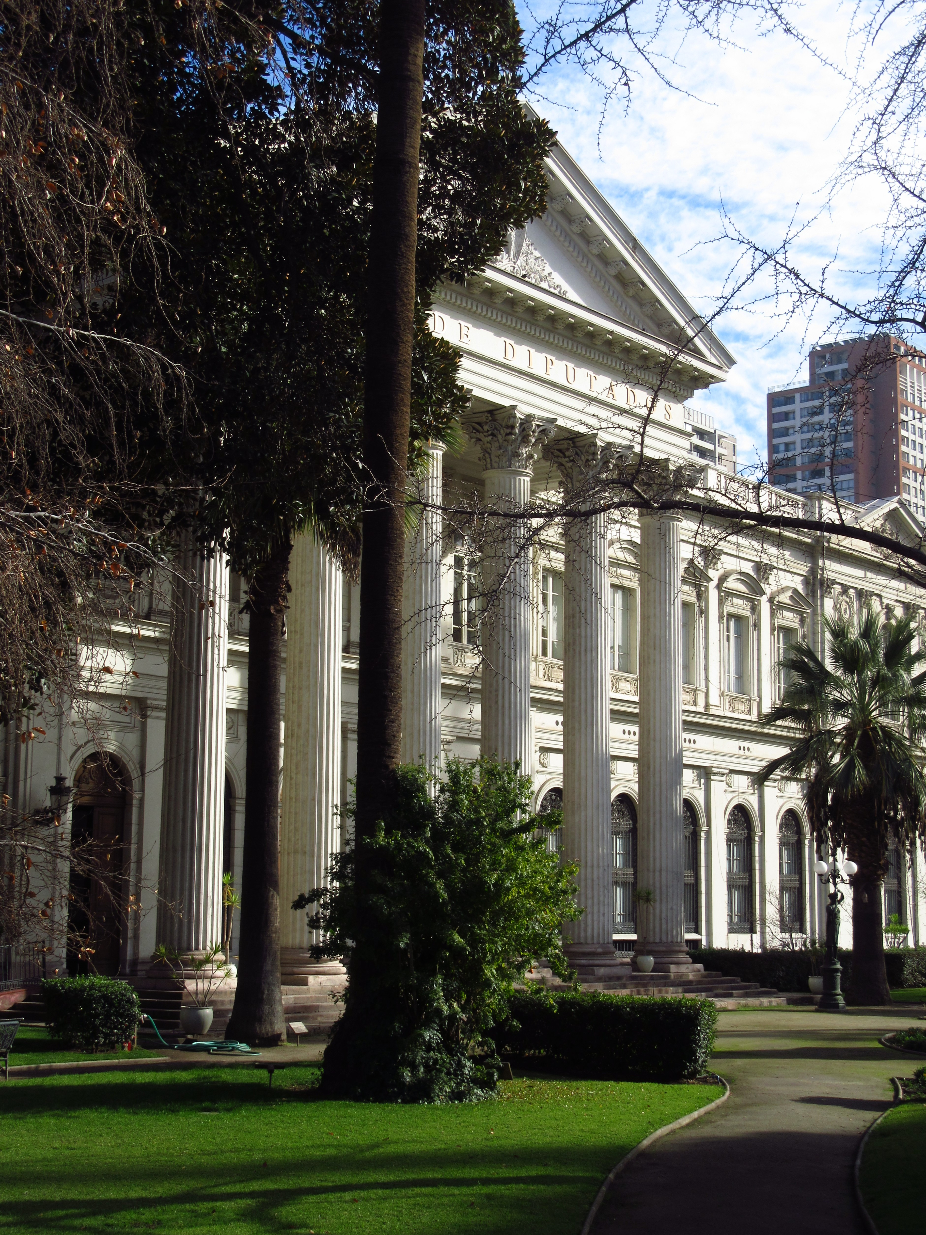 2017 in Santiago de Chile